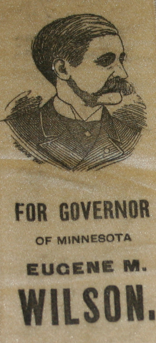 1888 political ribbon promoting Eugene McLanahan Wilson for Governor of Minnesota